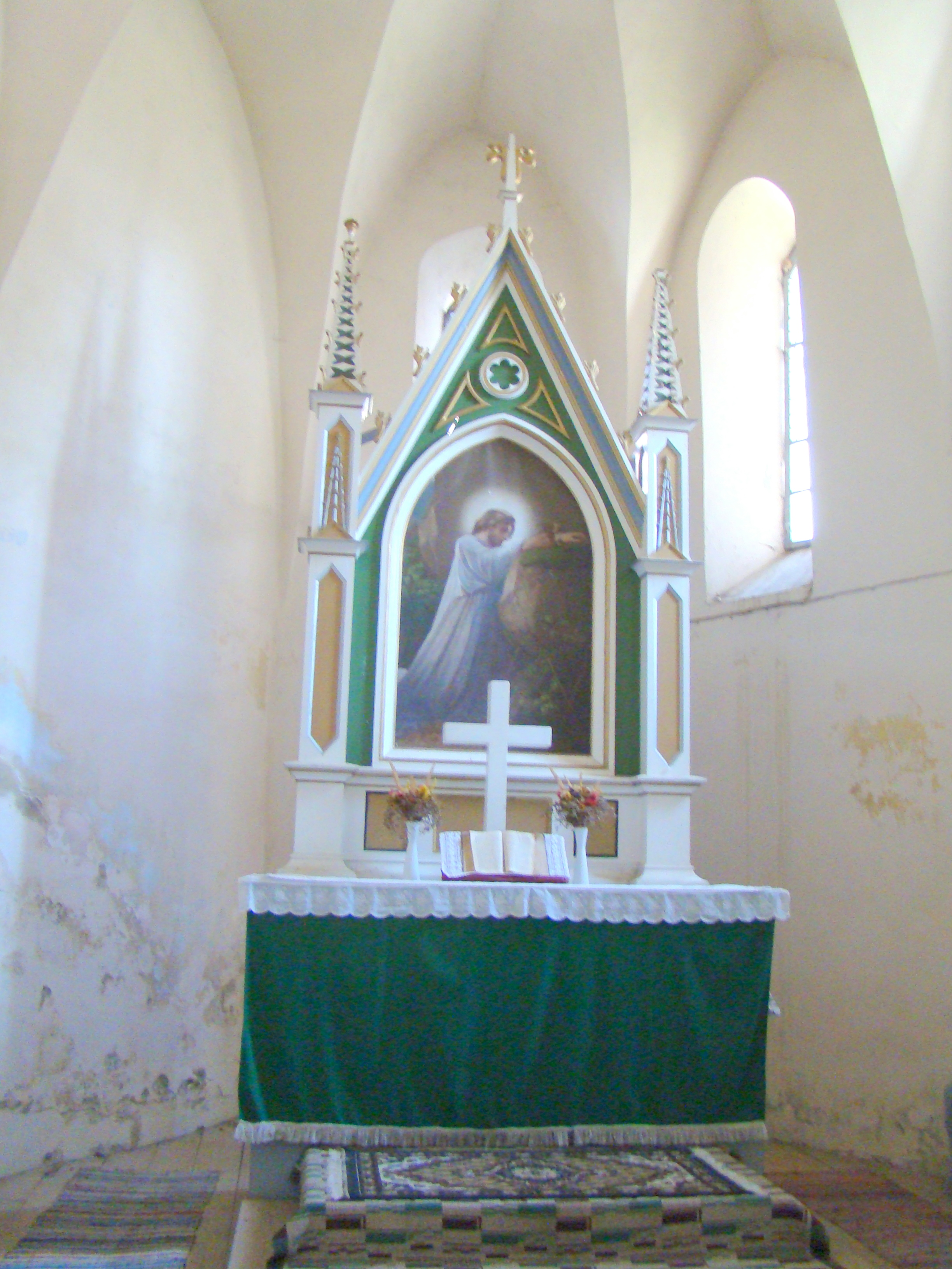 Lutheran church in Daneș, Mureș county, Romania